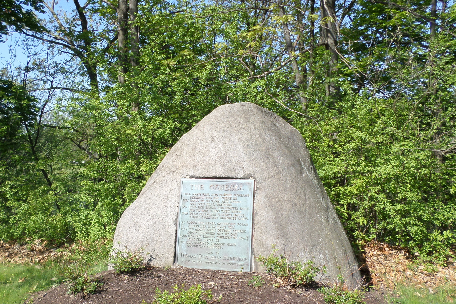 "Swinburne Rock": Memorial to poet Thomas Thackeray Swinburne, Wilson Blvd. Rochester NY